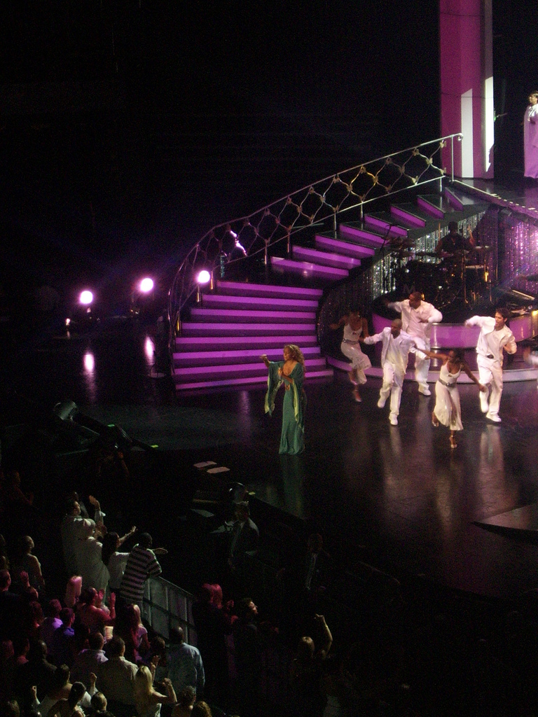 Mariah Carey performing in Tampa, Florida during The Adventures of Mimi Tour.